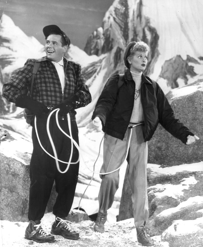 Publicity photo of Lucille Ball and Desi Arnaz in I Love Lucy.